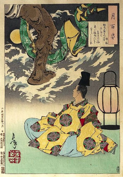 Tsunenobu and the demon